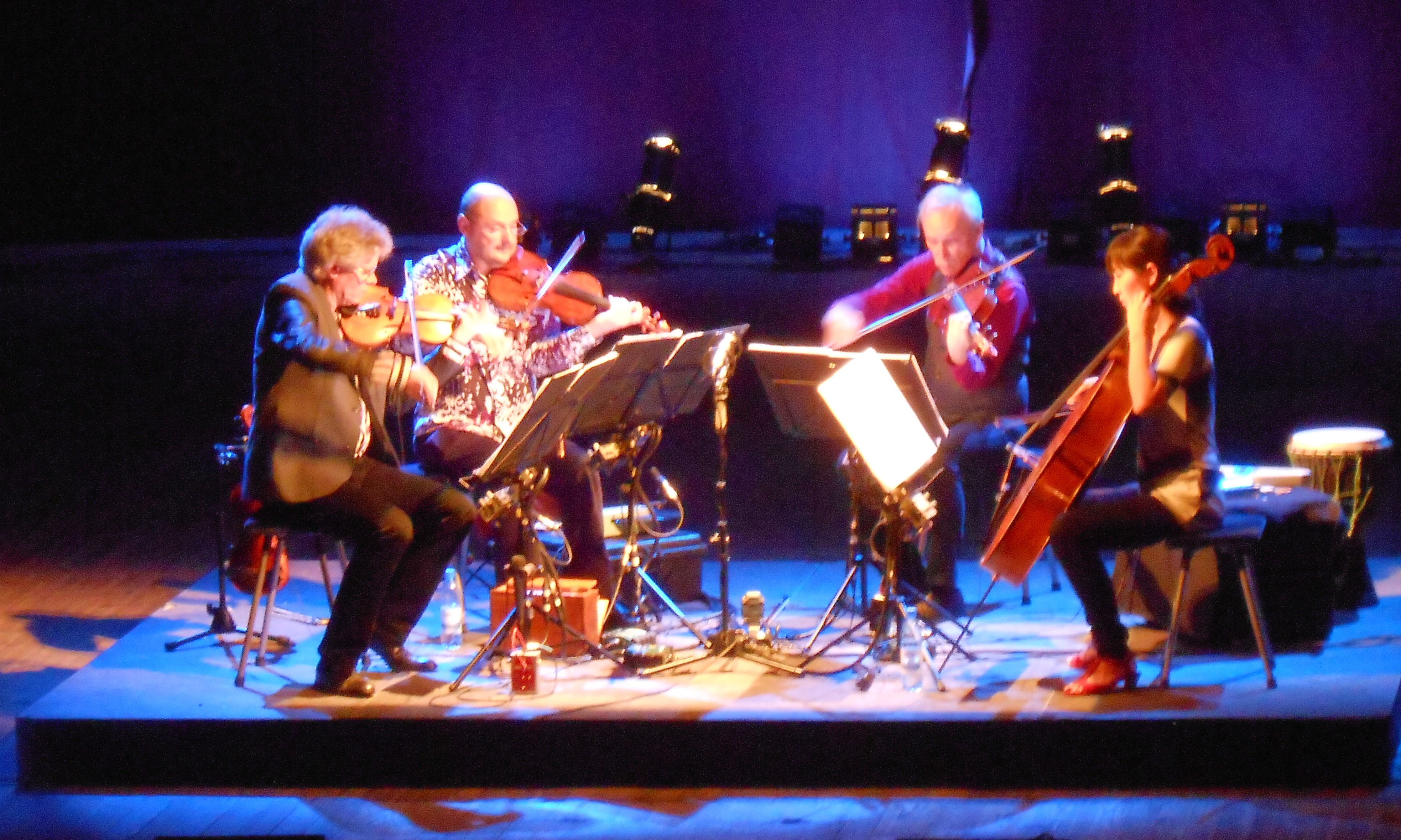 Kronos Quartet in Kyiv, Ukraine.